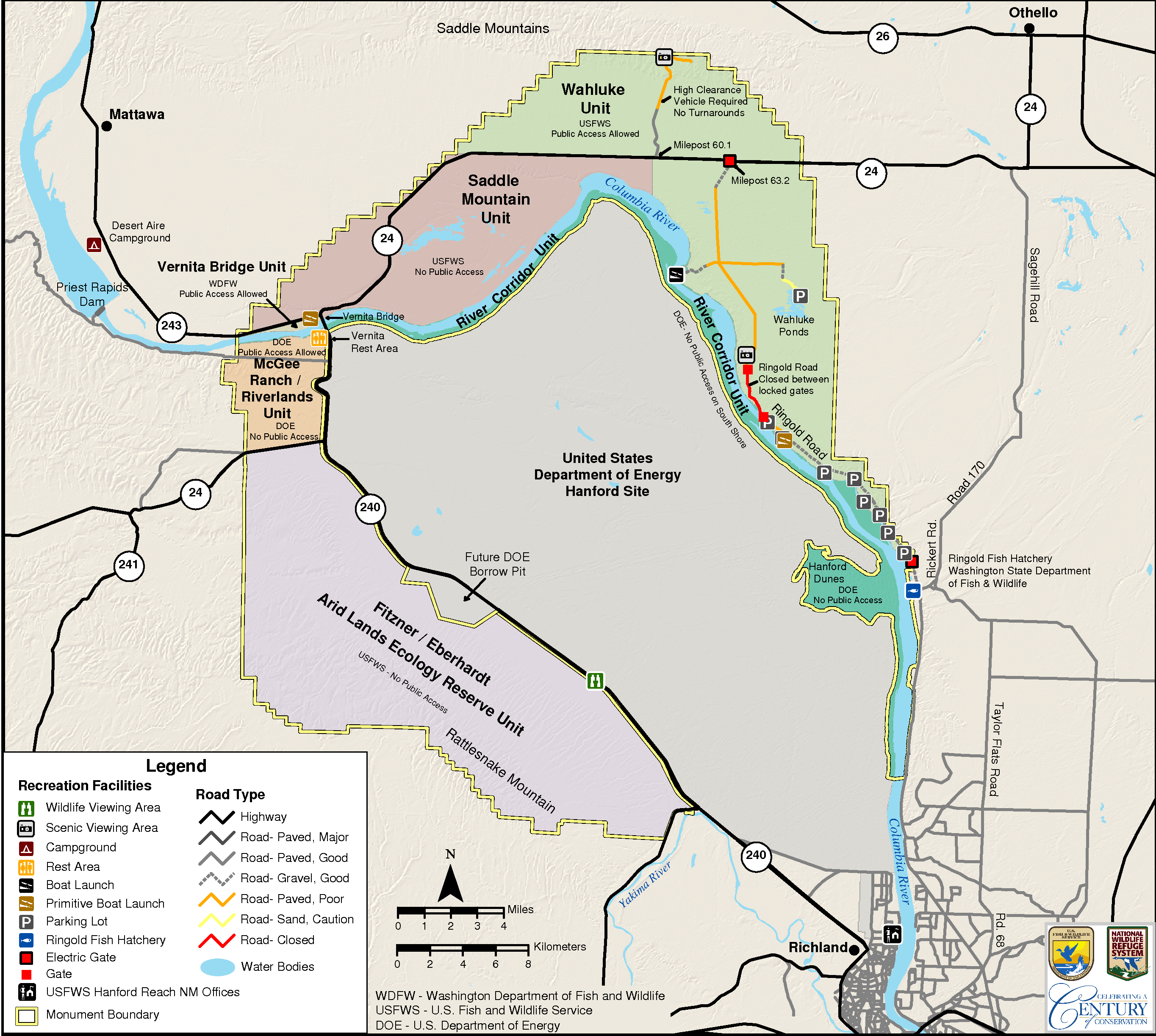 Map of Hanford Reach National Monument, Washington, USA